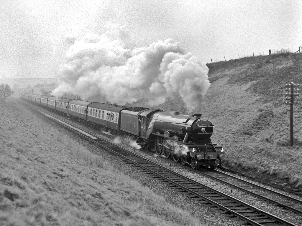 London and North Eastern Railway rebuilt Gresley 4-6-2 'A3' class locomotive number 4472 FLYING SCOTSMAN approaches Clapham on the Up Main line with a charter train. Thursday 24th February 1983